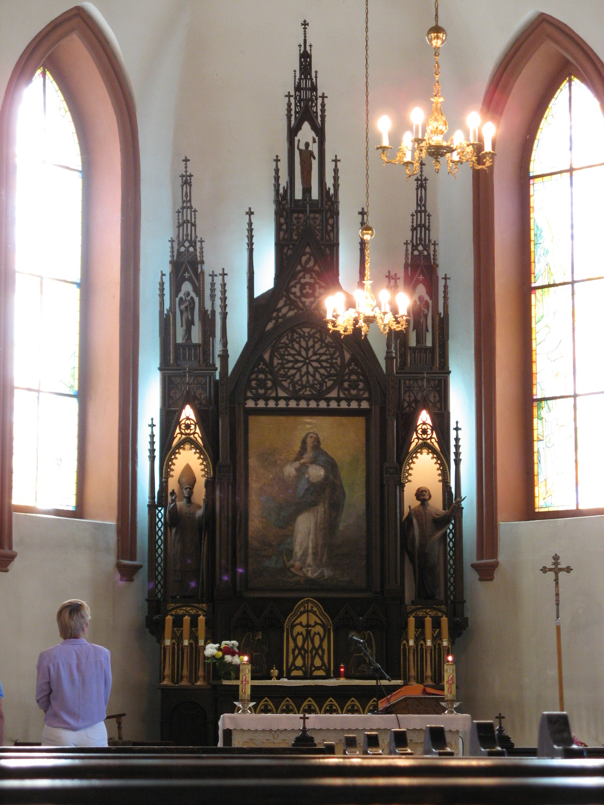 Inside the Roman-Catholic church of Immaculate Conception of Mary (Babrujsk, modern condition)